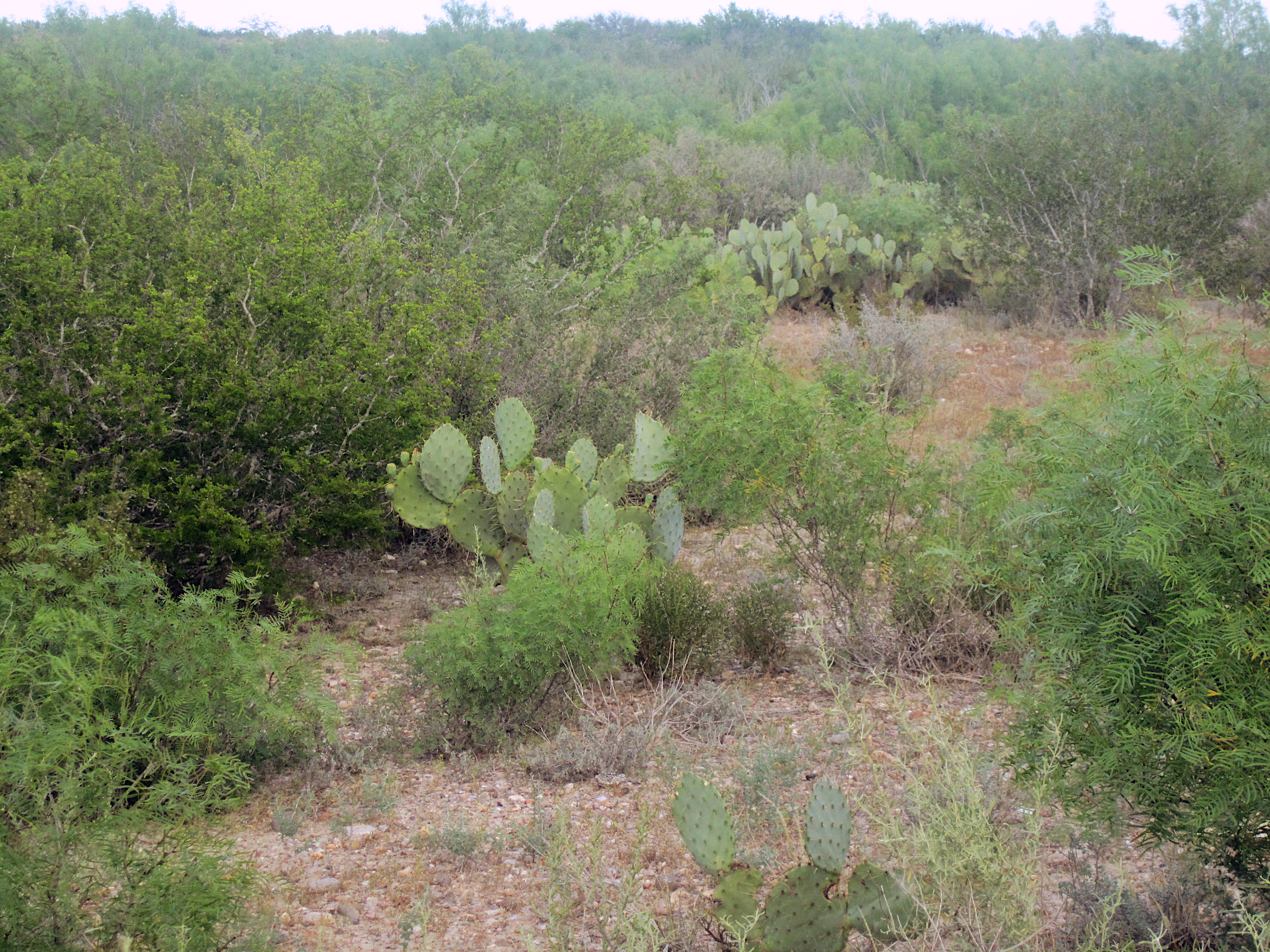 I took photo with Canon camera in eastern Webb County, TX.